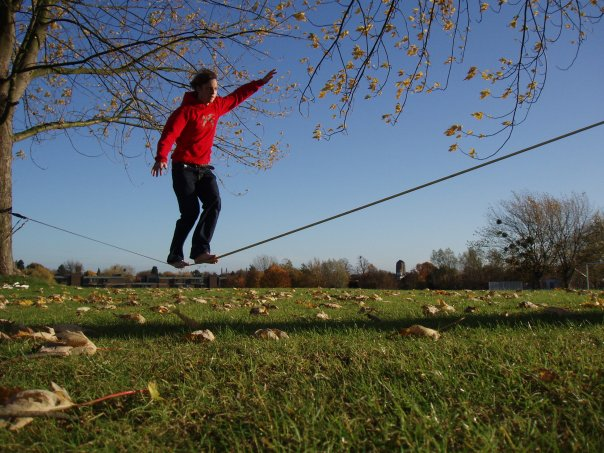 Student slacklining at the University of Cambridge